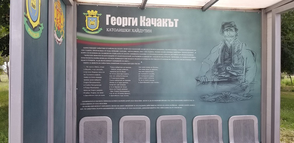 Bus stop in Rakovski